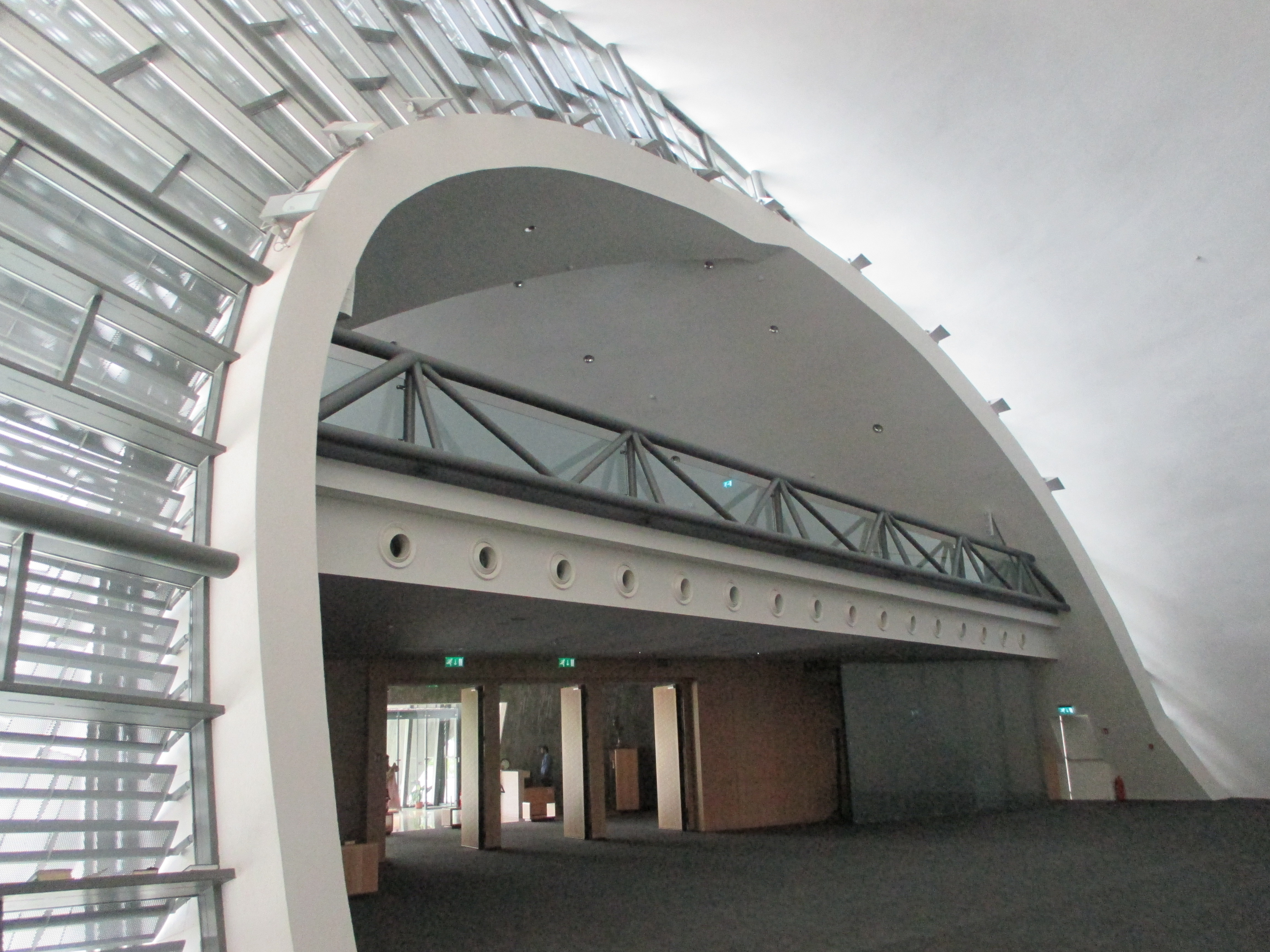 Rijeka Mosque - interior